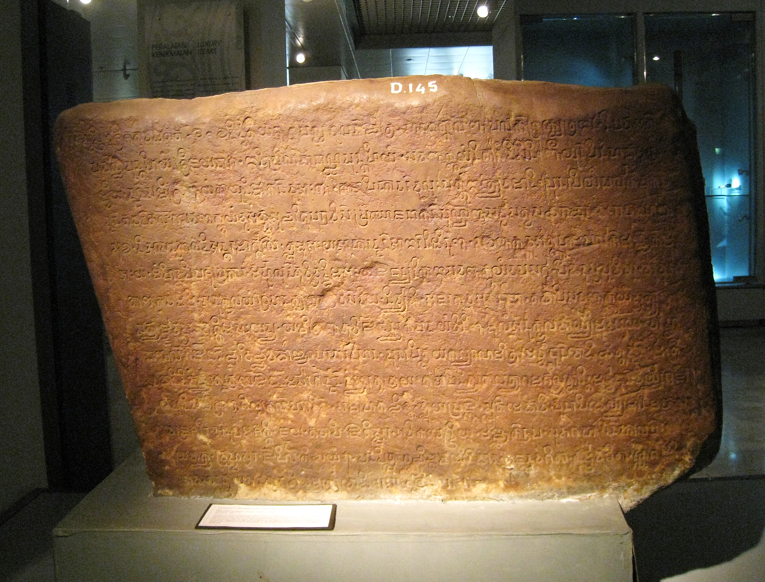 Talang Tuo inscription is a Srivijaya inscription measured 50cm × 80 cm discovered in 17 November 1920 at the foot of Seguntang Hill, near Palembang, South Sumatra, Indonesia. The inscription is written in Pallava letter in Old Malay, dated 606 Saka (23 March 684 CE) mentioning about the establishment of Śrīksetra sacred park under the order of Śrī Jayanāśa. Today the inscription is stored in National Museum of Indonesia, Jakarta.